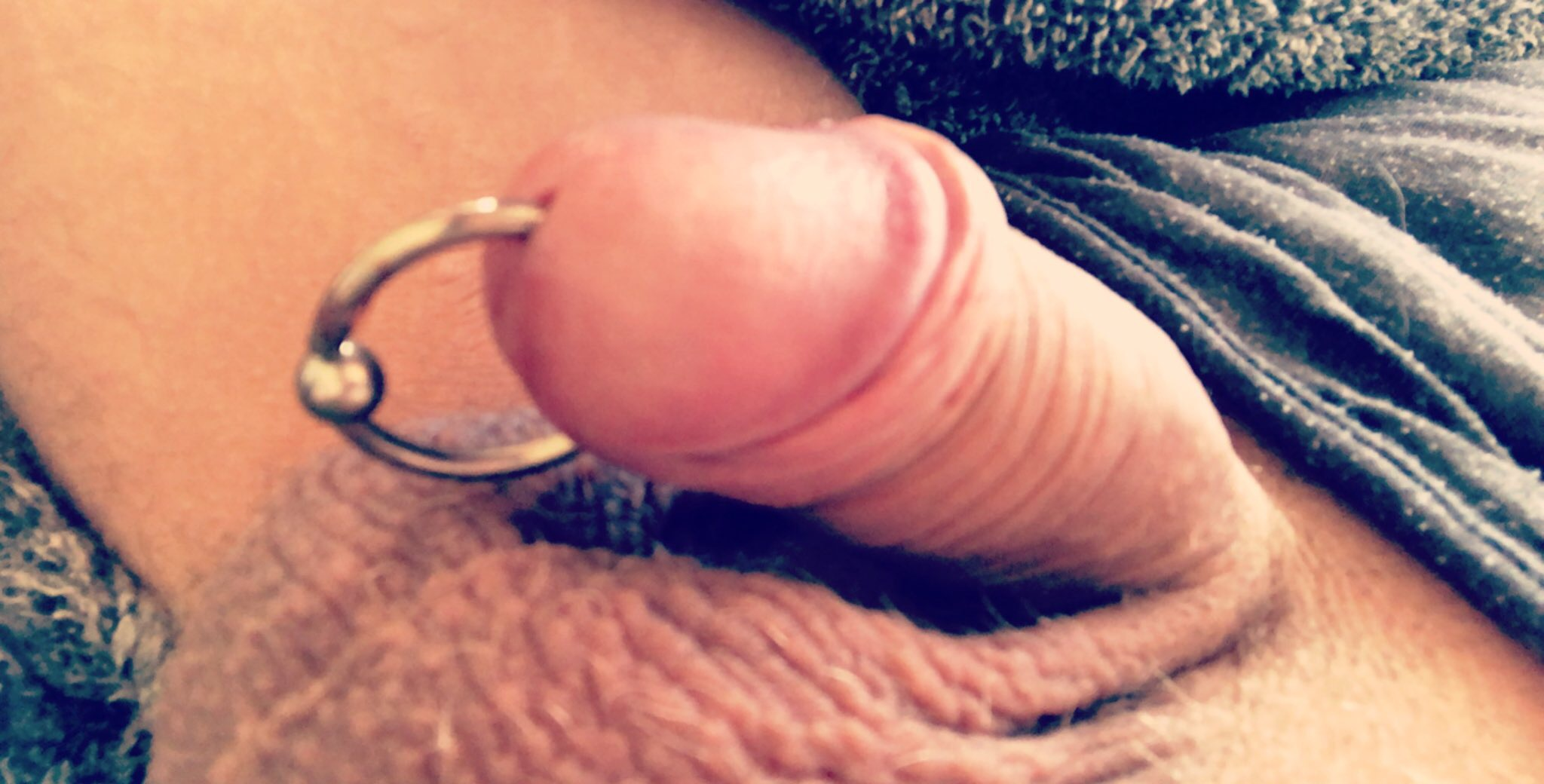 Prince Albert Piercing